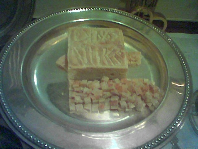 Orthodox paten with Lamb (Host) and commemorative particles